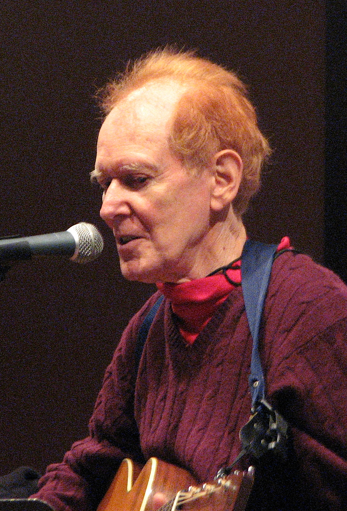 Portrait of folk musician Frank Hamilton, taken at the Old Town School of Folk Music in Chicago, Il.